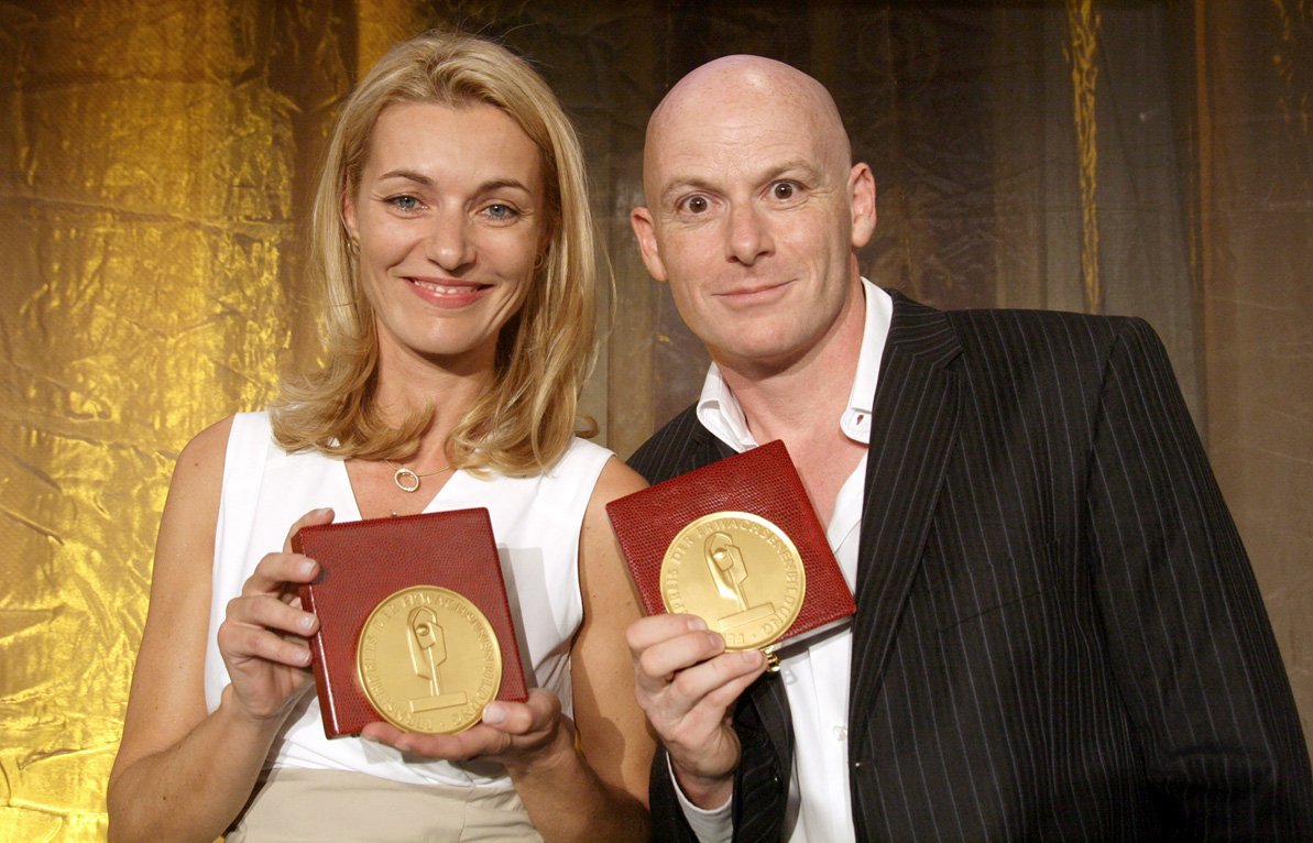 Barbara Essl and Thomas Rottenberg, 43. Fernsehpreis der Österreichischen Erwachsenenbildung at the Budget Hall of the Austrian Parliament Building in Vienna.